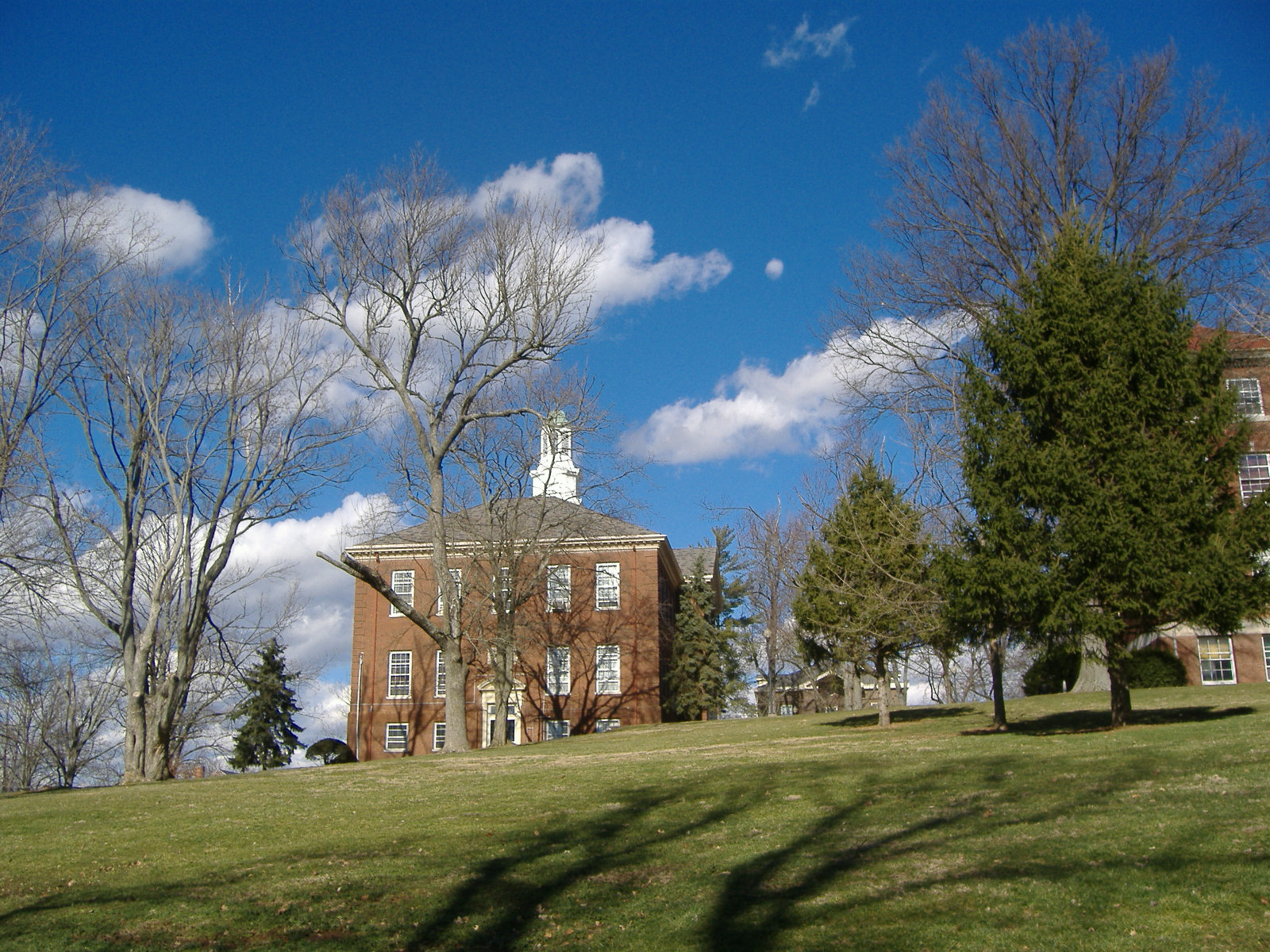 Midway College in Midway, Kentucky